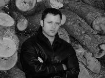 Description : American author Benjamin Percy. Author : Benjamin Percy source URL